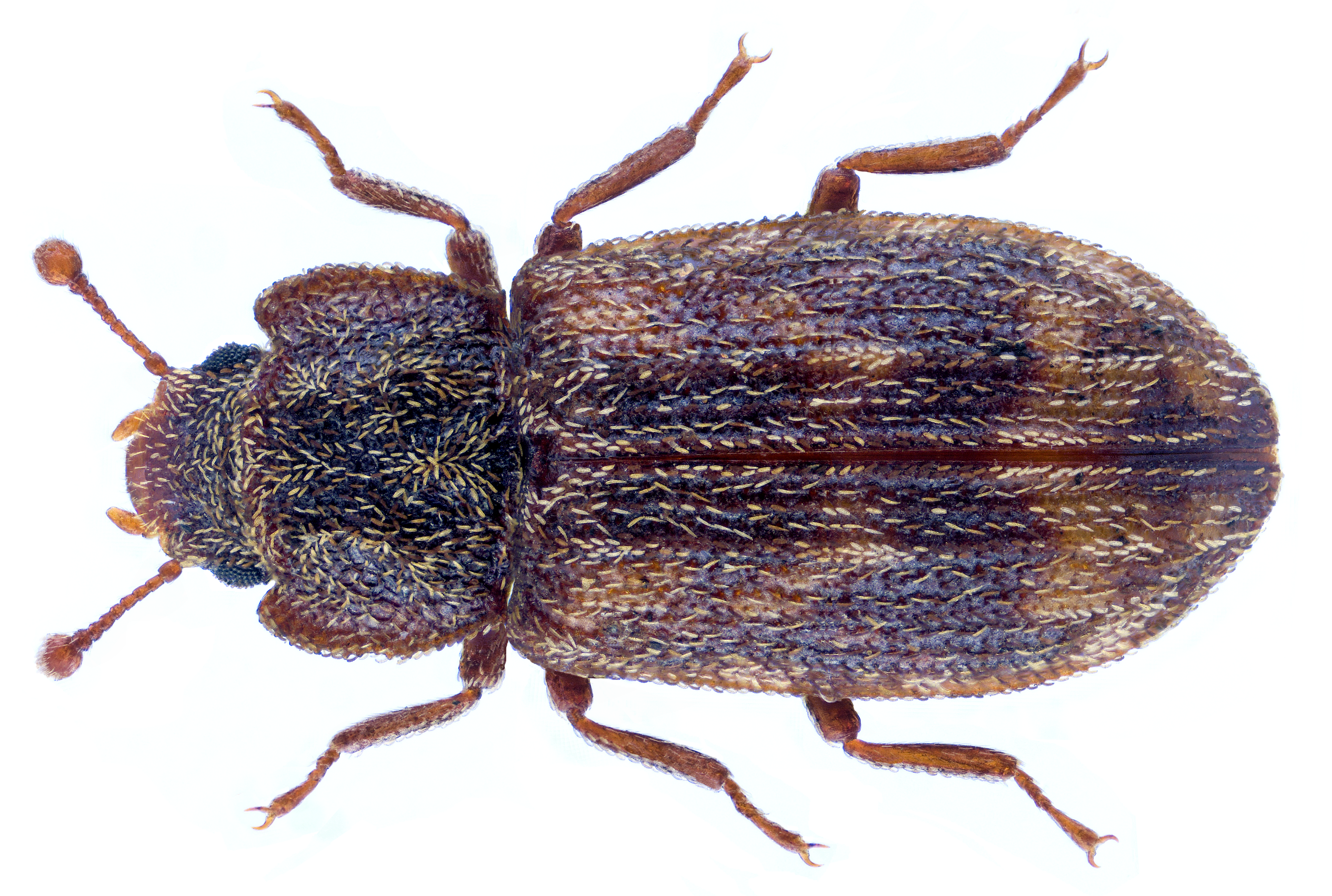 Family: Zopheridae (Colydiidae) Size: 3.2 mm (2.8 to 3.5 mm) Origin: Europe Ecology: On old decayed deciduous trees, especially on beeches Location: England, Goodwood leg.det. P.Harwood; 20 IX.1919 Coll. Oxford University Museum of Natural History Photo: U.Schmidt, 2018